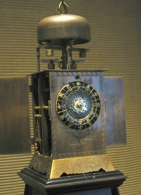 Clockwatch of the mid-Edo period, 18th century Japan. In Tokyo National Science Museum, 2004.